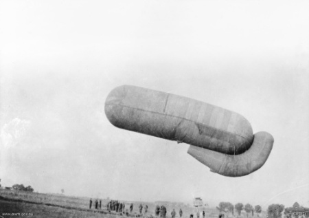 British observation balloon ascending on the morning of beginning of the Battle of Pozières.